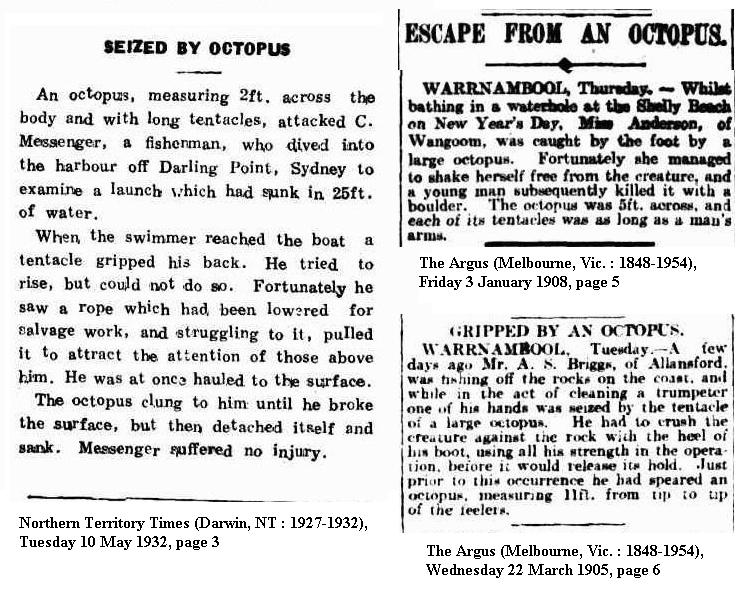 from the National Library Australian newspapers digitisation program which are pre-1955 so no copyright: "The service includes newspapers published in each state and territory from the 1800s to the mid-1950s, when copyright applies."